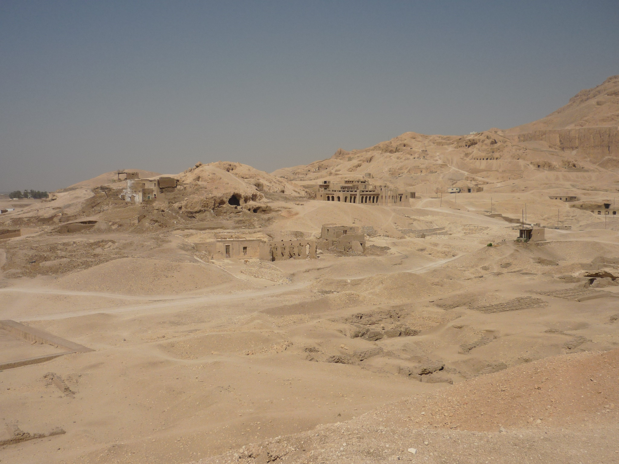 Abd el-Qurna necropolis, Theban Necropolis, Egypt